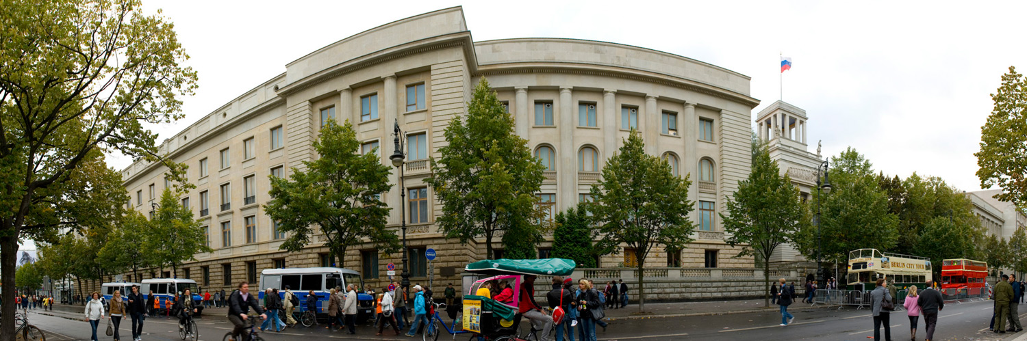 Russian Trade Representative in Berlin, Unter den Linden 55-61, 10117 Berlin